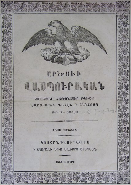 Artsiv Vaspurakan (in Armenian Արծիւ Վասպուրական) was an Armenian periodical. It was published monthly, then weekly, in Constantinople and Varagavank from 1855 to 1874 by Mkrtich Khrimian and M. Ananian.